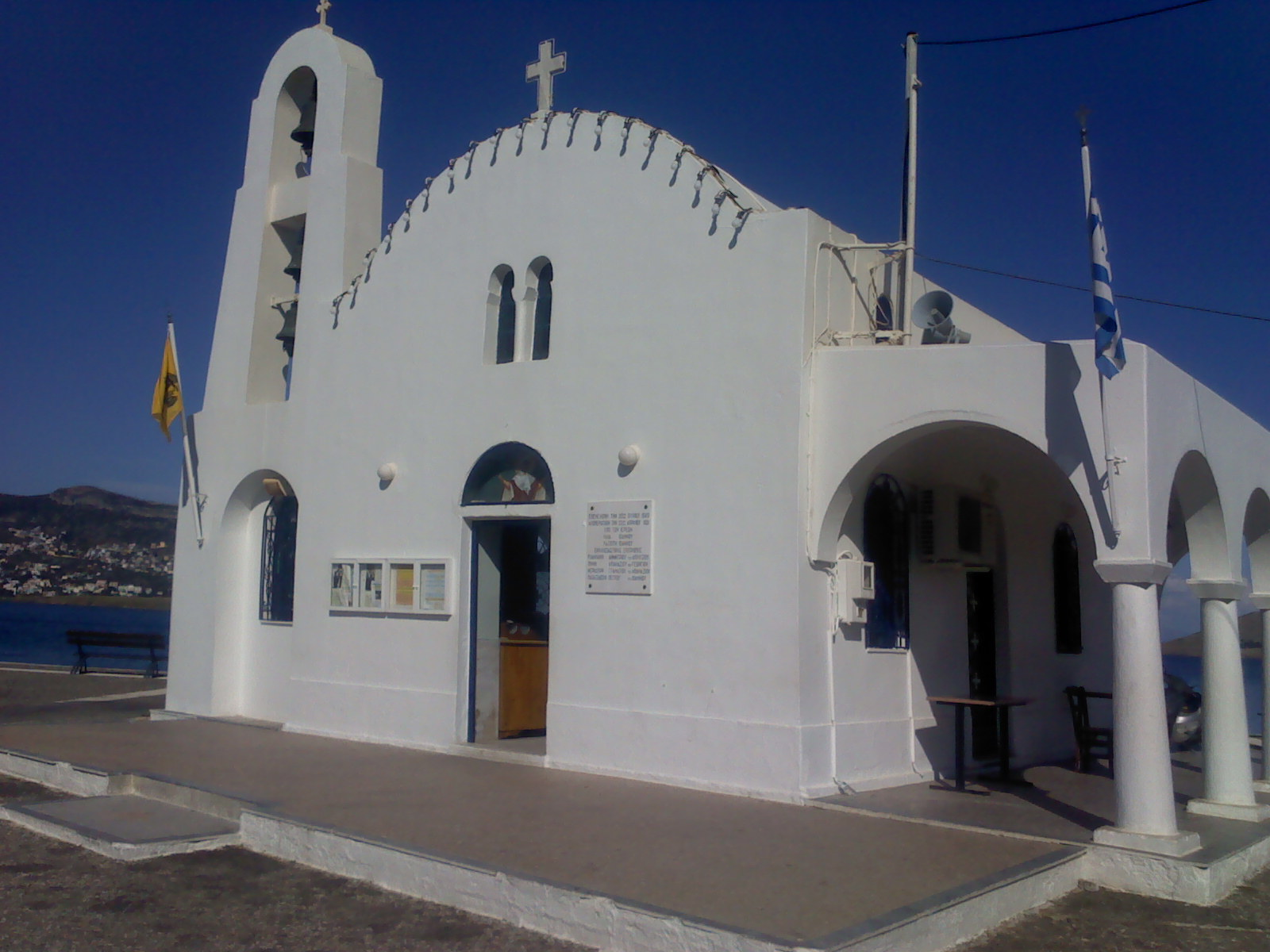 Church Agia Marina Porto Rafti